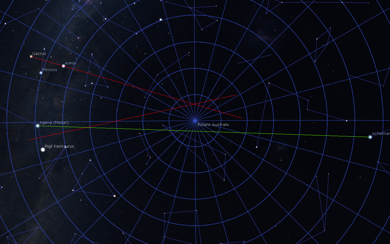 Diagram showing how tu use Southern Cross and Southern Pointers (brightest stars of Centaurus) to find the south celestial pole. Hadar and Achernar of Eridanus help to further pinpoint its location, as it is roughly halfway between them.